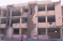 Sultan Razia School, The school is located in Mazar-e-Sharif according to (Description on page of image source must be wrong.)